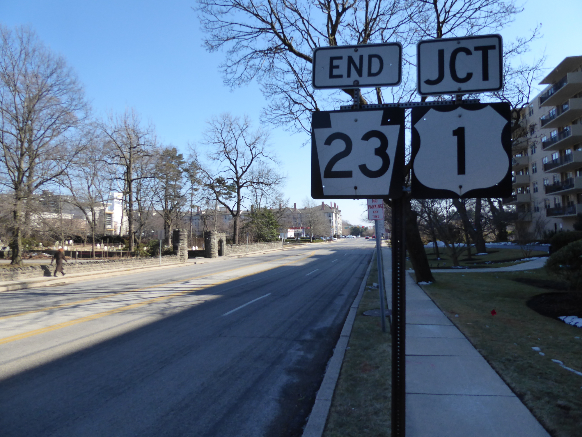 Pennsylvania Route 23 eastern terminus at U.S. Route 1 at the border of Lower Marion Township and Philadelphia.